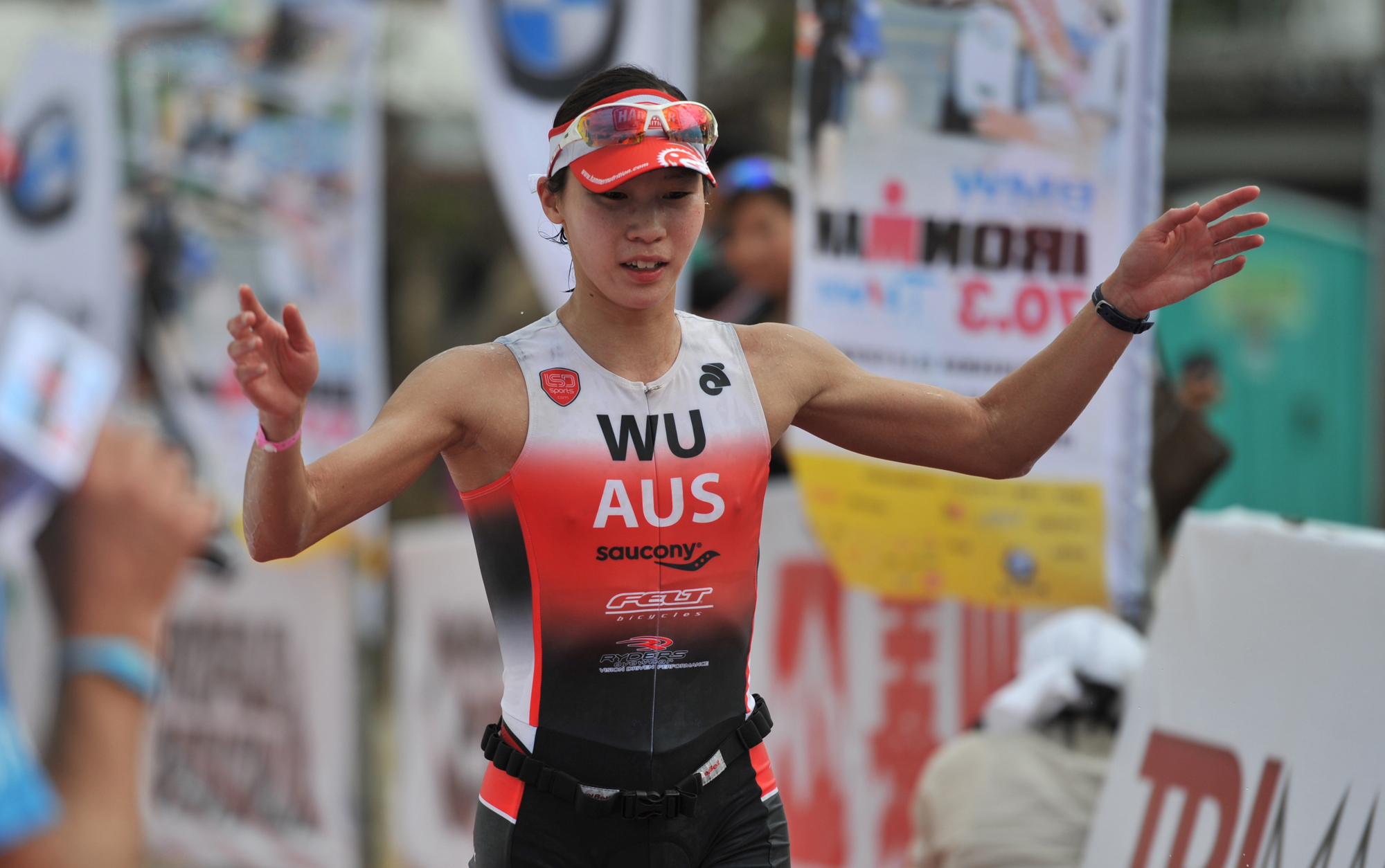 Michelle Wu celebrating her victory at Ironman 70.3 Taiwan 2011